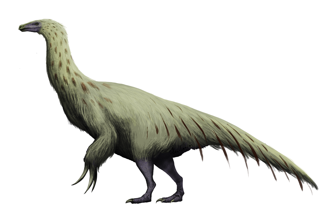 Theropod dinosaur from the cretaceous period